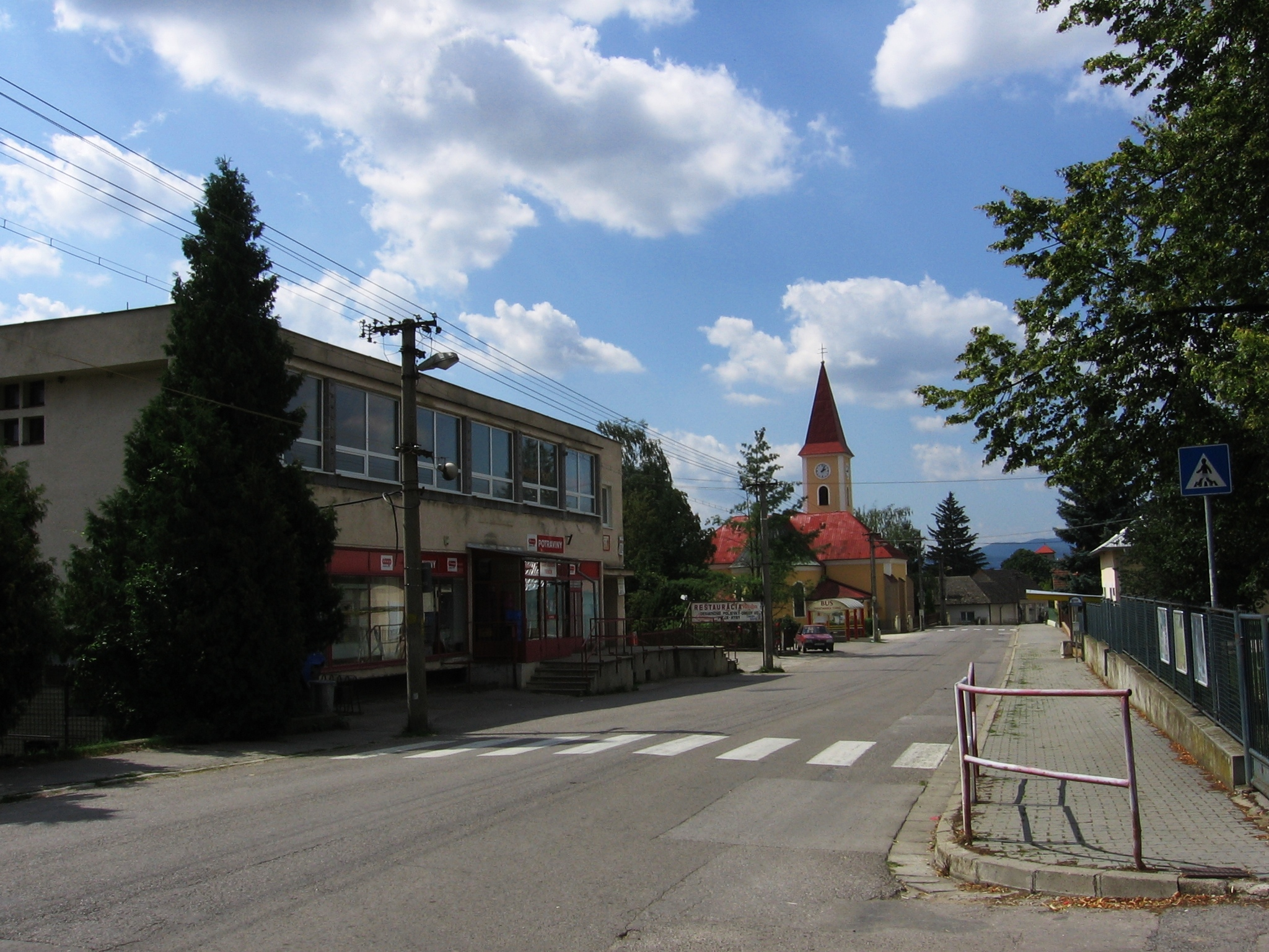 Main place/road in the village Trenčianska Turná, Trenčín district, Slovakia. Building in the left is grocery, roman catholic church in the background.